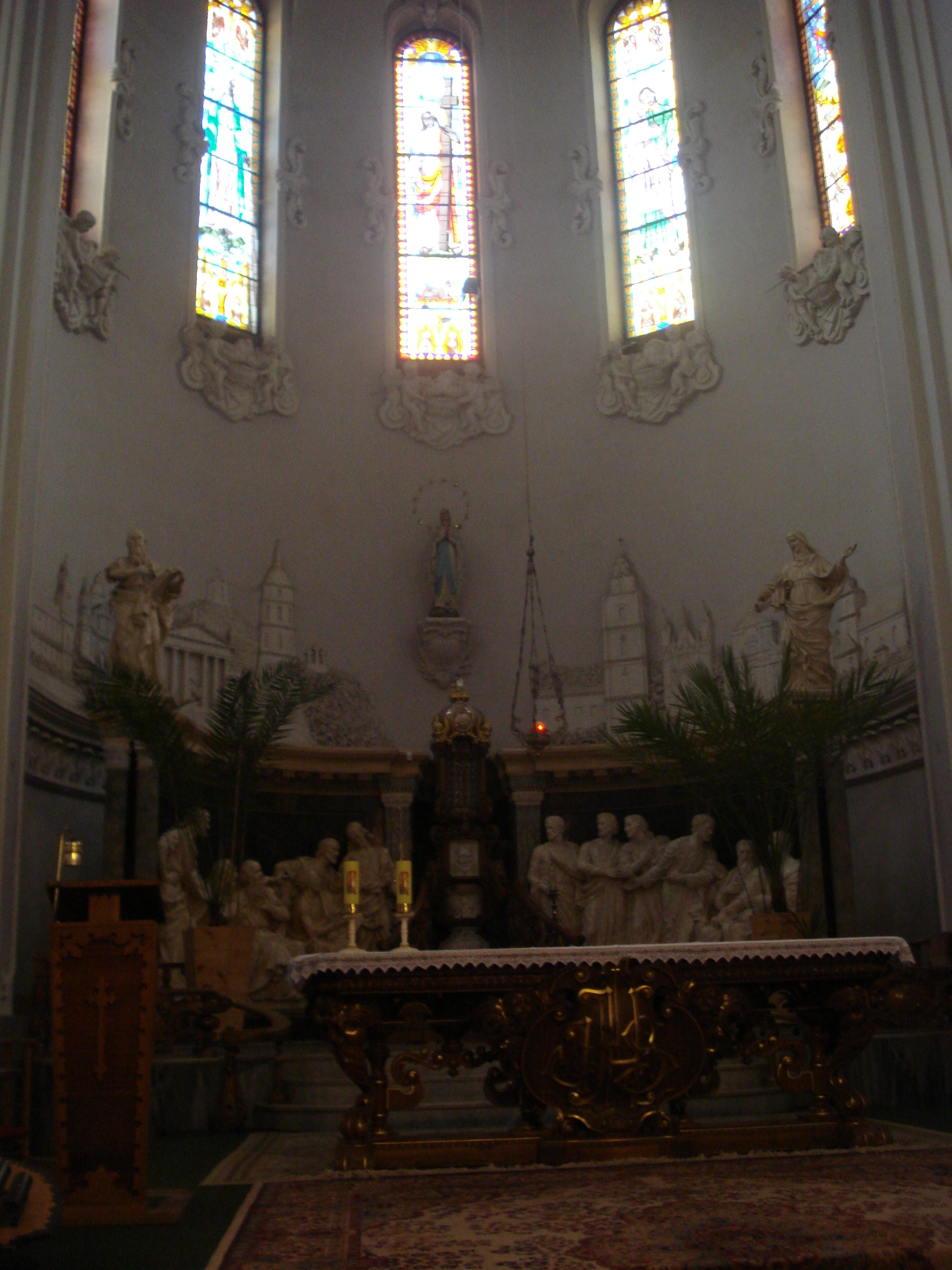 Church of the Immaculate Conception of Blessed Virgin Mary in Vilnius (Sėlių g. 17). Main altar